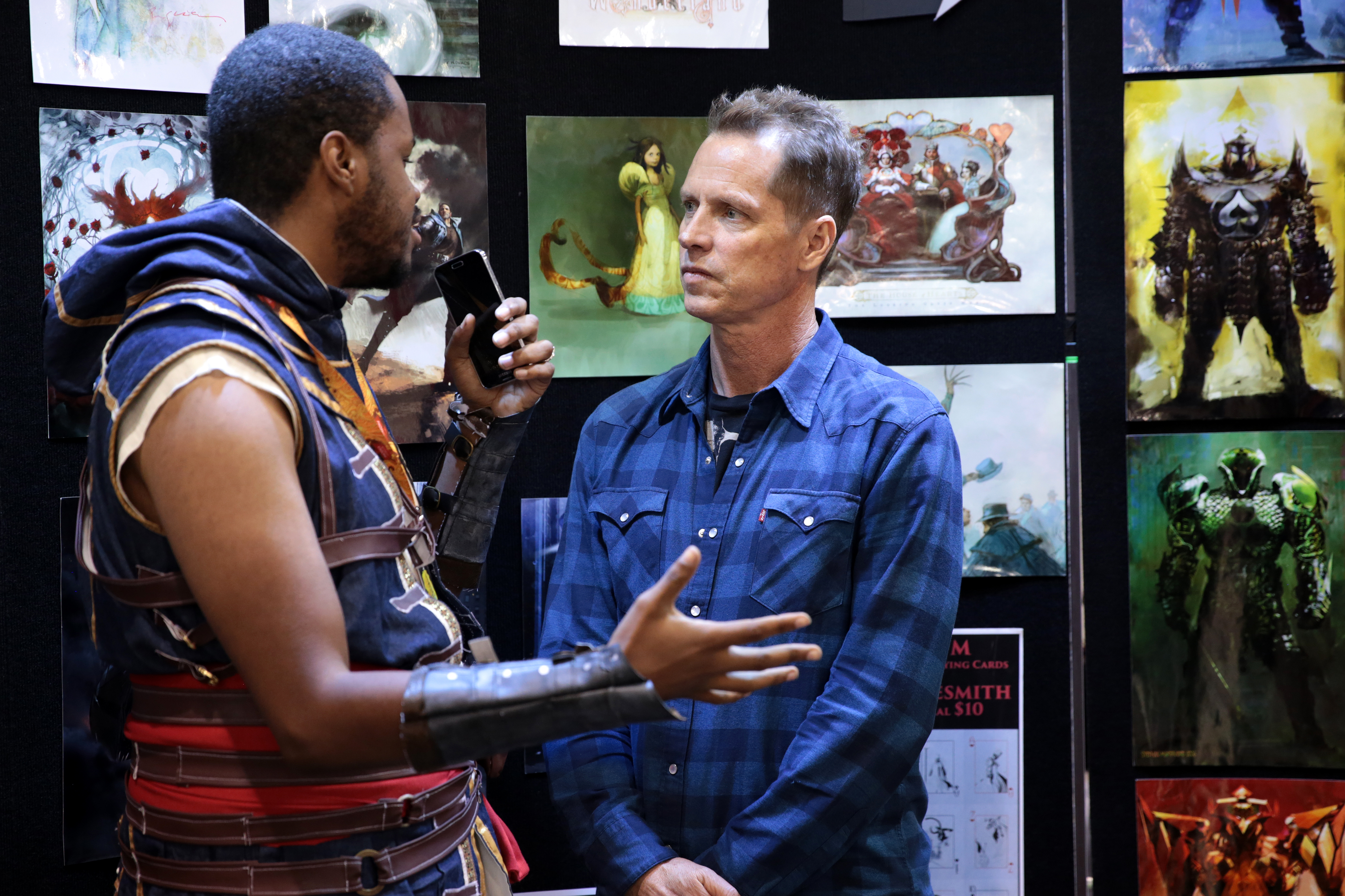 Frank Beddor speaking at the 2017 Phoenix Comicon in Phoenix, Arizona.